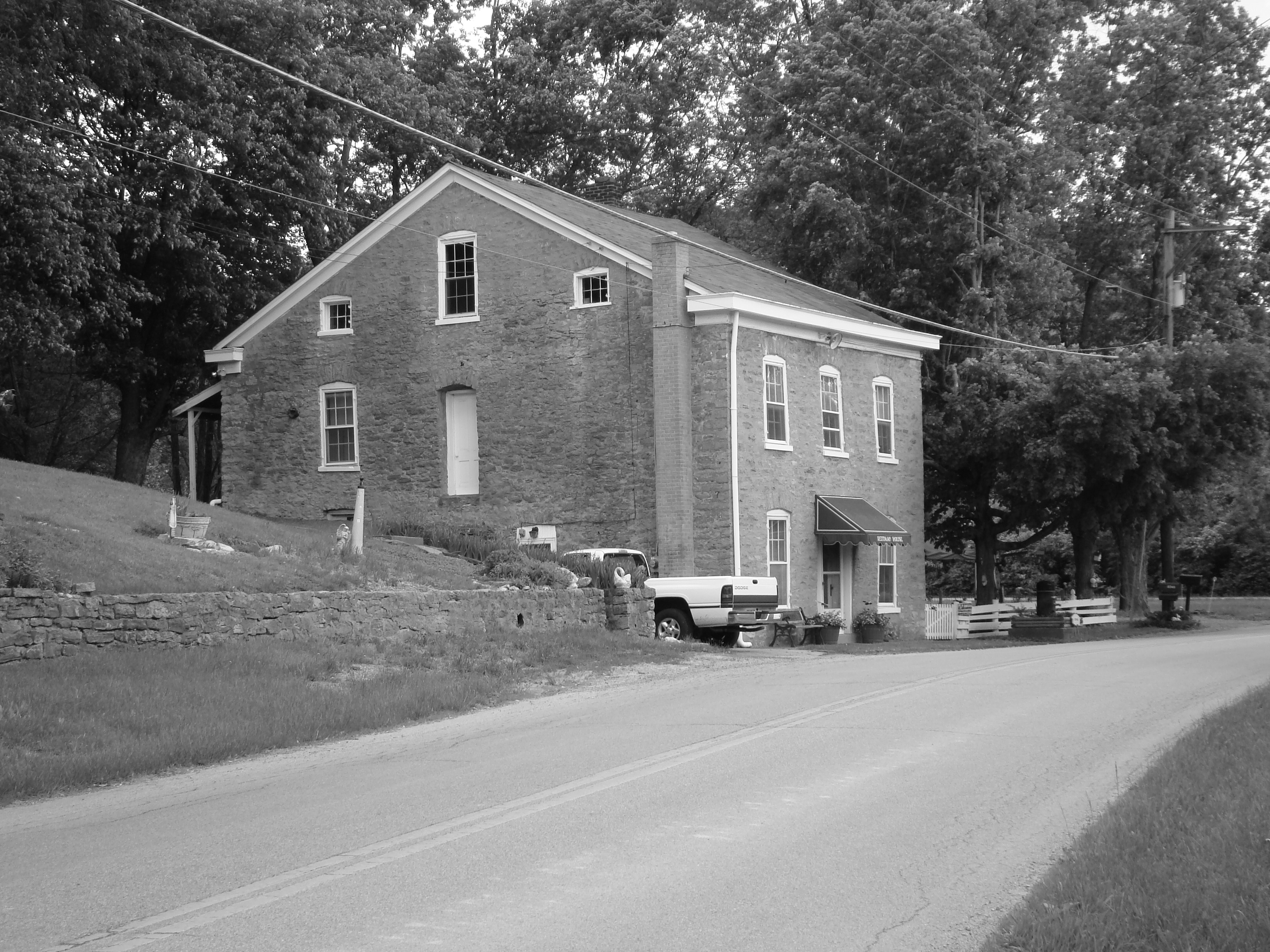 Blau's Four Mile House (Reitman House) is a historic house located in Camp Springs, an unincorporated area of rural Campbell County, Kentucky.